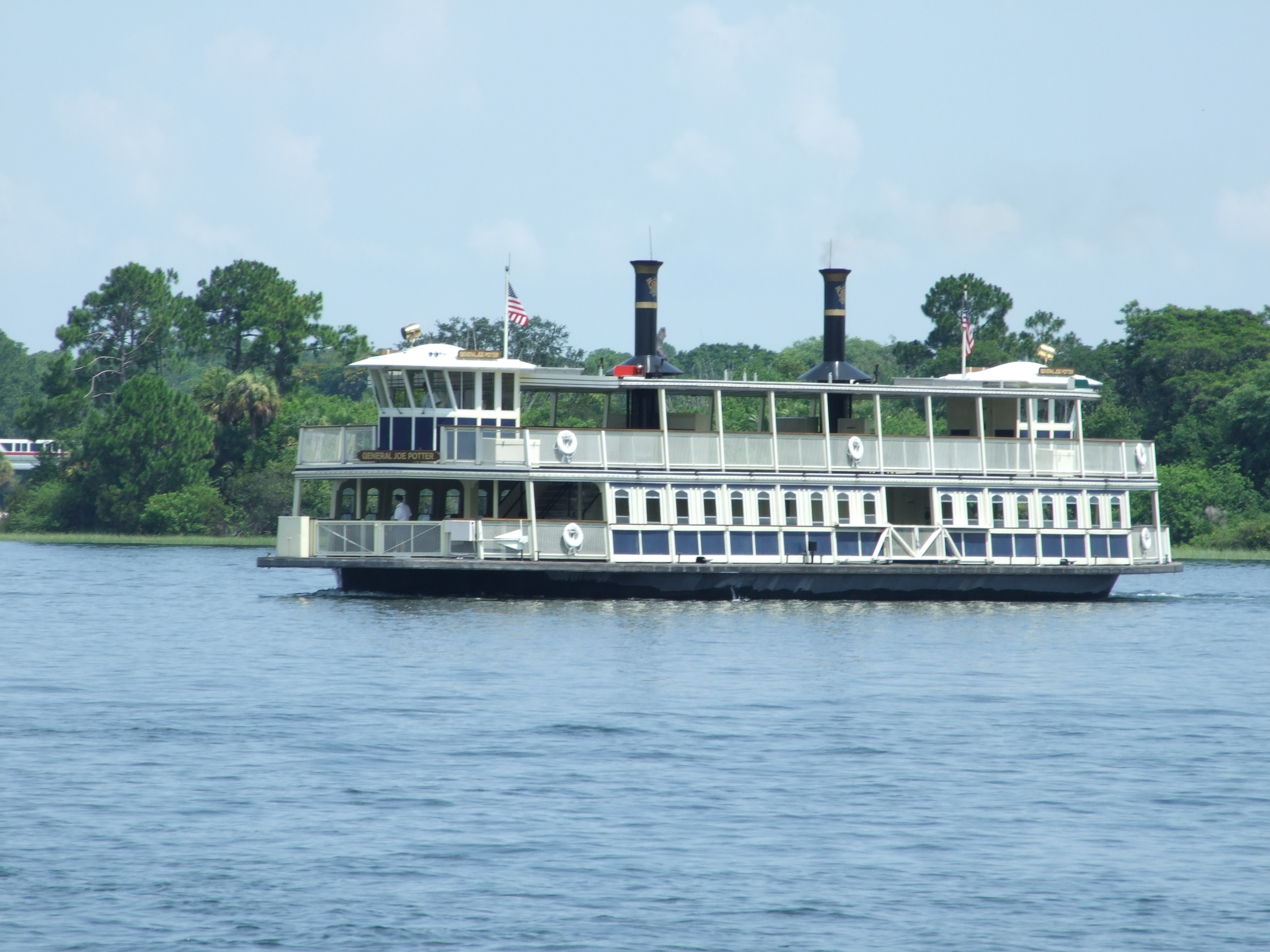 General Joe Potter Steamboat